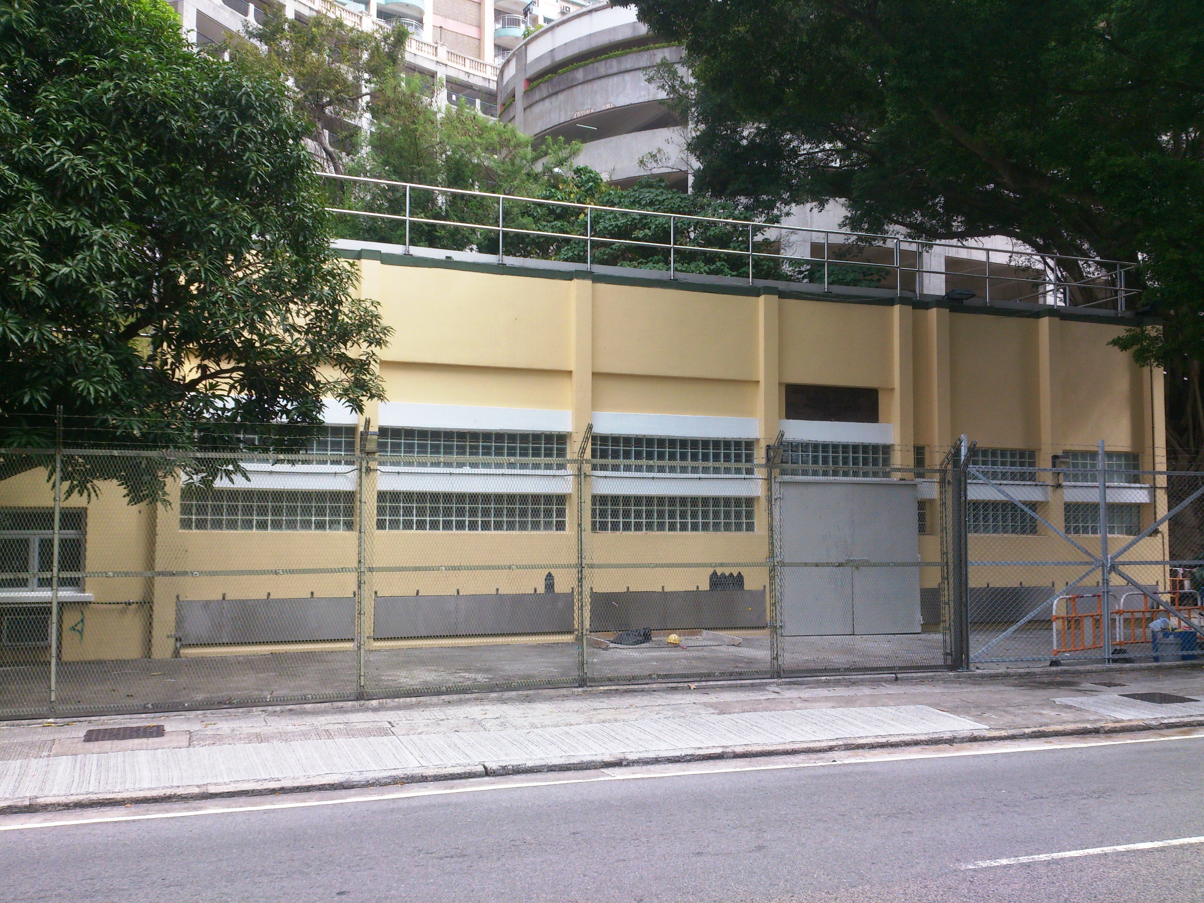 Telegraph Bay Pumping Station